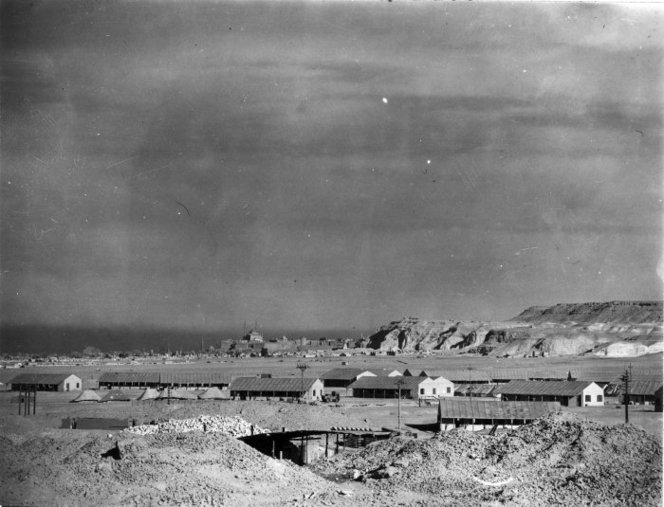 Maadi military camp, with Cairo in the background. Photograph taken by G R Bull, circa 1941. Bull, George Robert, 1910-1966. Department of Internal Affairs. War History Branch :Photographs relating to World War 1914-1918, World War 1939-1945, occupation of Japan, Korean War, and Malayan Emergency. Ref: DA-11253. Alexander Turnbull Library, Wellington, New Zealand. George Bull was an official photographer of the NZ Military Forces and thus copyright in this work rests or rested with the Crown. The Crown has released this work under the CC-BY 3.0 unported license. Refer to source website for details: This work's copyright expired 50 years after creation in New Zealand and probably also in countries following the rule of the shorter term.